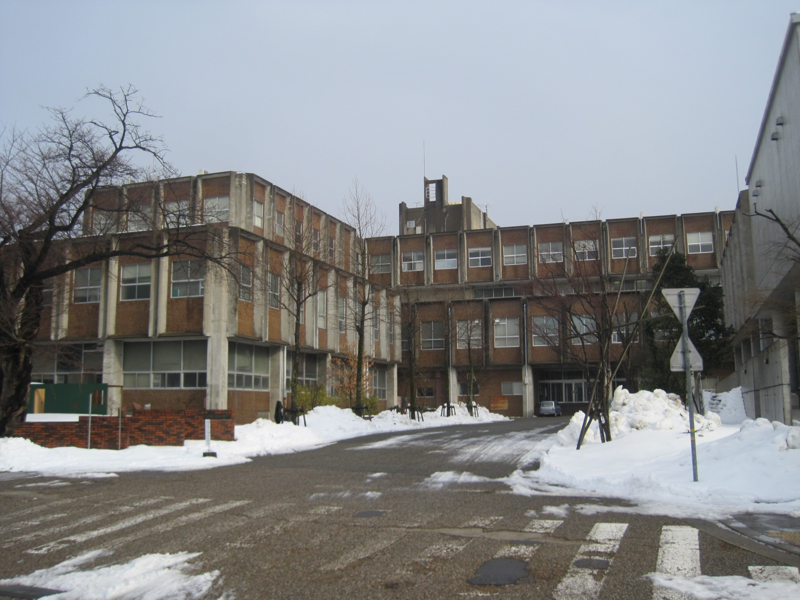 Kanazawa College of Art(Kanazawa city, Ishikawa prefecture)